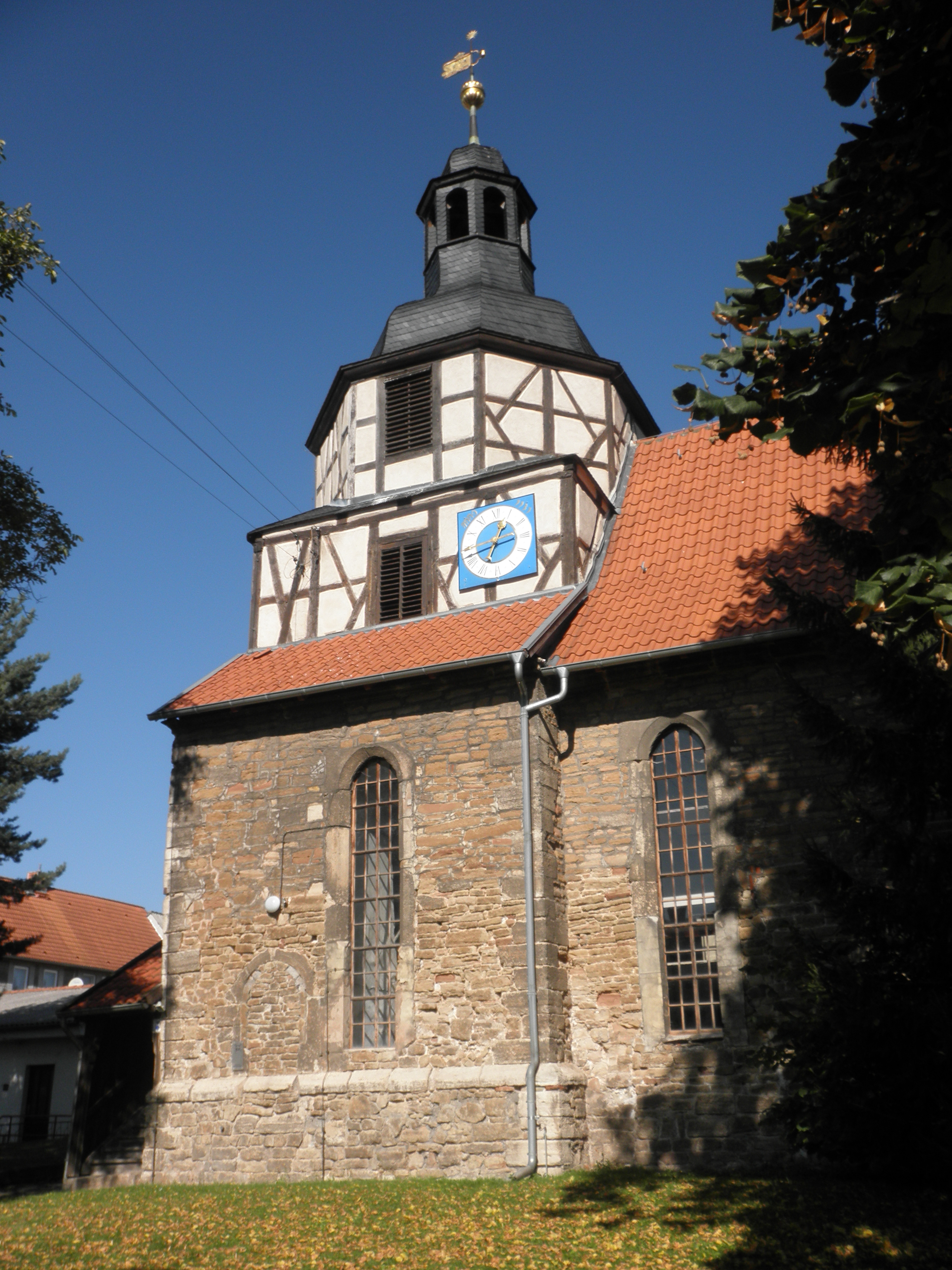 Church in Großwerther in Thuringia